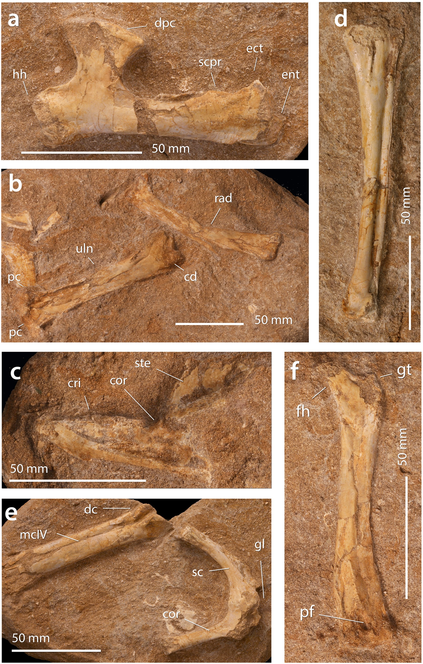 Holotype of Alcione elainus. Fig. 6 of: Longrich, N. R., Martill, D. M., & Andres, B. (2018). Late Maastrichtian pterosaurs from North Africa and mass extinction of Pterosauria at the Cretaceous-Paleogene boundary. PLoS biology, 16(3), e2001663. --- Original figure legend: A. elainus FSAC-OB 2, holotype partial skeleton and FSAC-OB 217, metacarpal IV. (A) Holotype right humerus in anterior view, (B) holotype right ulna and radius in anterior view, respectively, (C) holotype sternum in left lateral view, (D) referred metacarpal IV, (E) holotype, distal end of left metacarpal IV and left scapulocoracoid, and (F) holotype right femur in posterior view. Abbreviations: co, coracoid; cr, cristospine; dc, distal condyle; dpc, deltopectoral crest; ect, ectepicondyle; fh, femoral head; gl, glenoid; gt, greater trochanter; hh, humeral head; hum, humerus; mcIV, metacarpal IV, pc, proximal cotyle; pf, pneumatic foramen; rad, radius; scpr, supracondylar process; ste, sternum; uln, ulna.